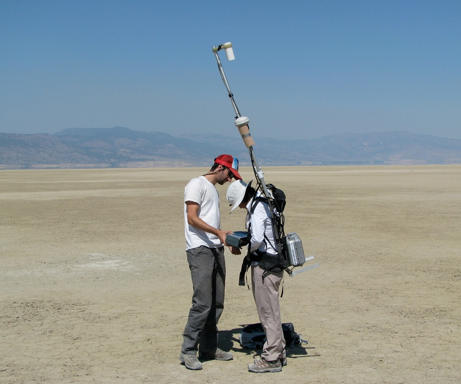 Ground surveying in Surprise Valley, Cedarville, California, United States. U.S. Geological Survey researcher Noah Athens secures a magnetometer pack onto Stanford graduate student Melissa Pandika, who blogged the team’s first year’s research for USGS in Surprise Valley, Modoc County, Calif., in 2012. Traditionally, magnetometric surveying has been done on foot or by all-terrain vehicle, and the Surprise Valley team’s aerial data is still ground-truthed this way. However, human-powered ground surveying methods are time-consuming and less precise than aerial surveys, and cannot be performed on dangerous or inaccessible ground.